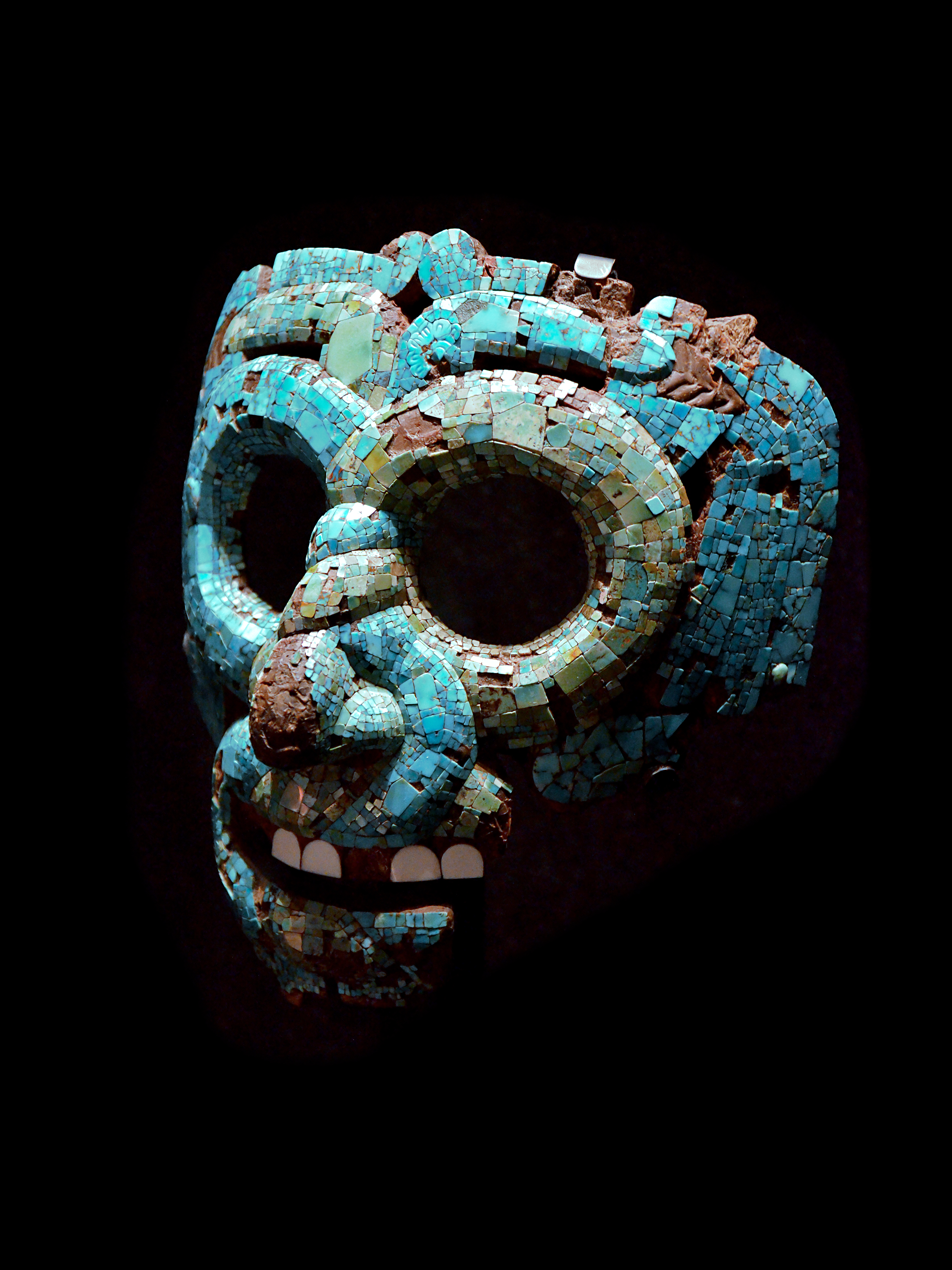 Turquoise mosaic mask of Quetzalcoatl, the feathered serpent. Aztec or Mixtec (AD 1400-1521), in the British Museum.